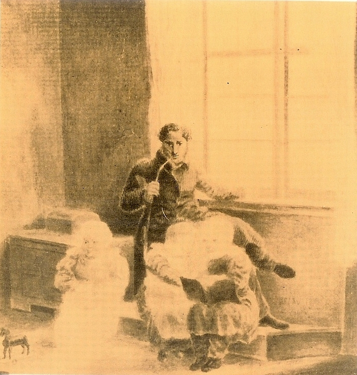 Self-Portrait of Johann Friedrich Wilhelm Lesenberg with children